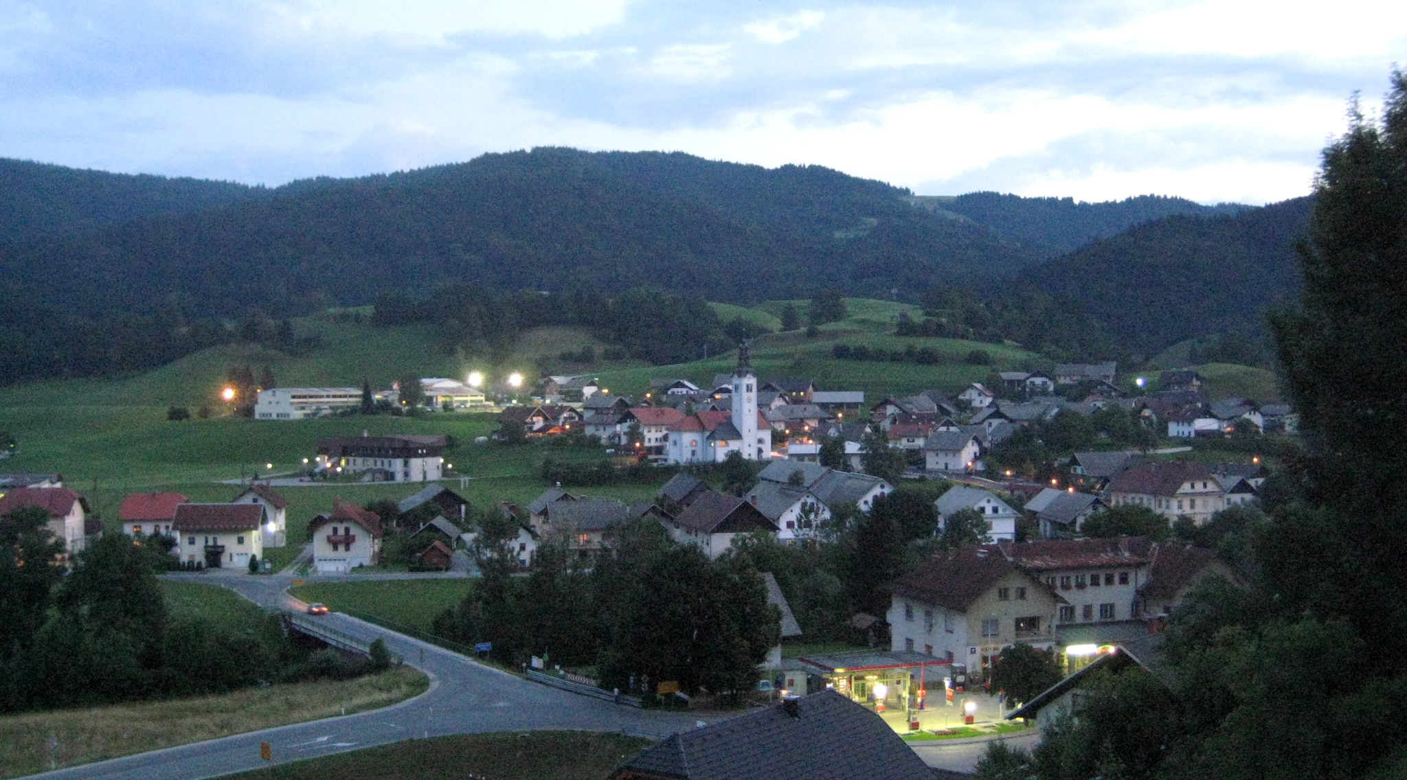 Gorenja Vas, Poljanska dolina; village in Slovenia